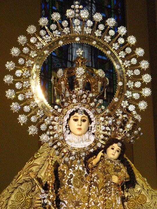 The image of Our Lady of the Most Holy Rosary of La Naval de Manila in Sto. Domingo Church, Quezon City, Philippines during the Grand Procession.